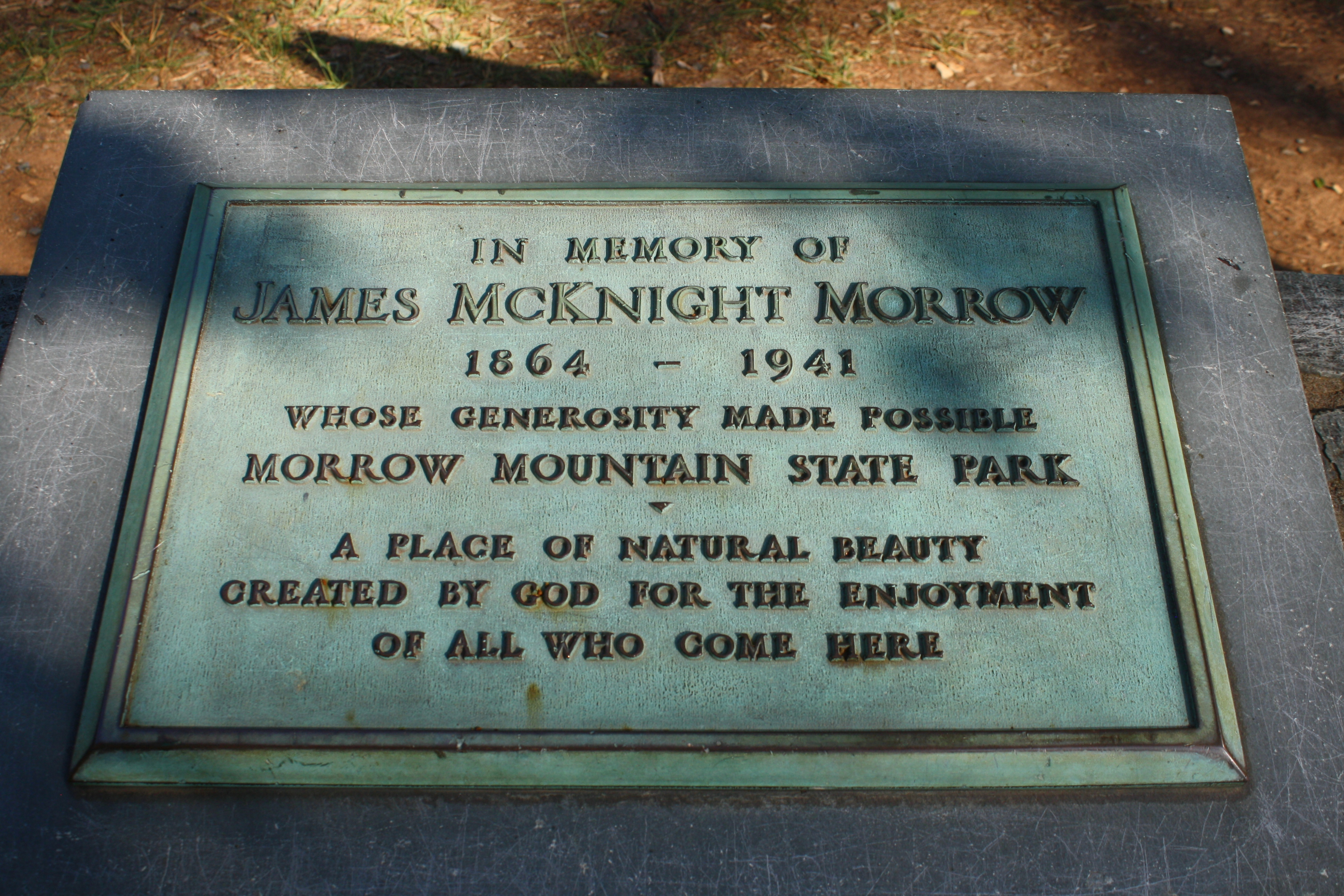 Plaque at Morrow Mountain State Park (NC) honoring James McKnight Morrow, who donated a large area of land to create the park